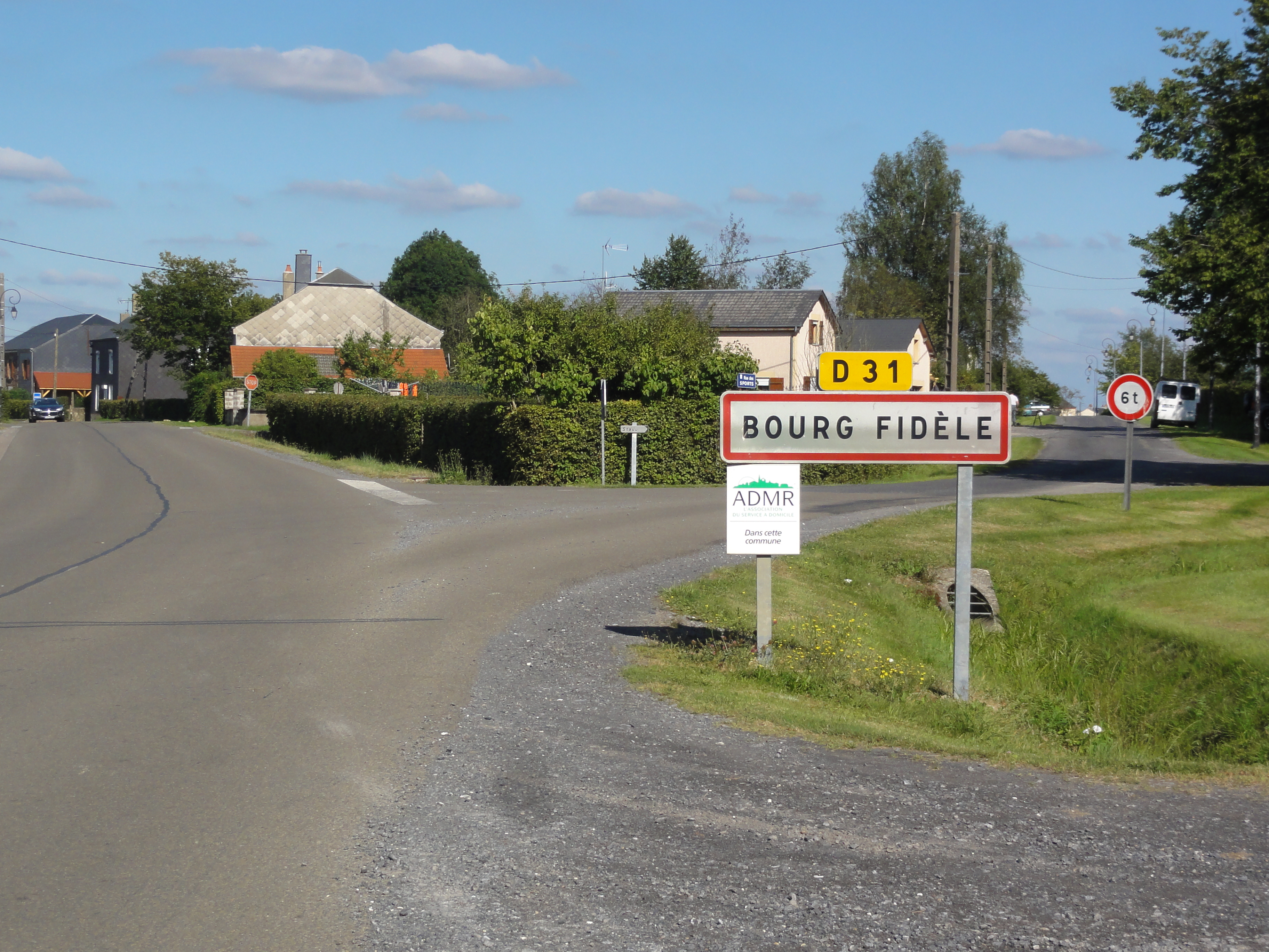 Bourg-Fidèle (Ardennes) city limit sign